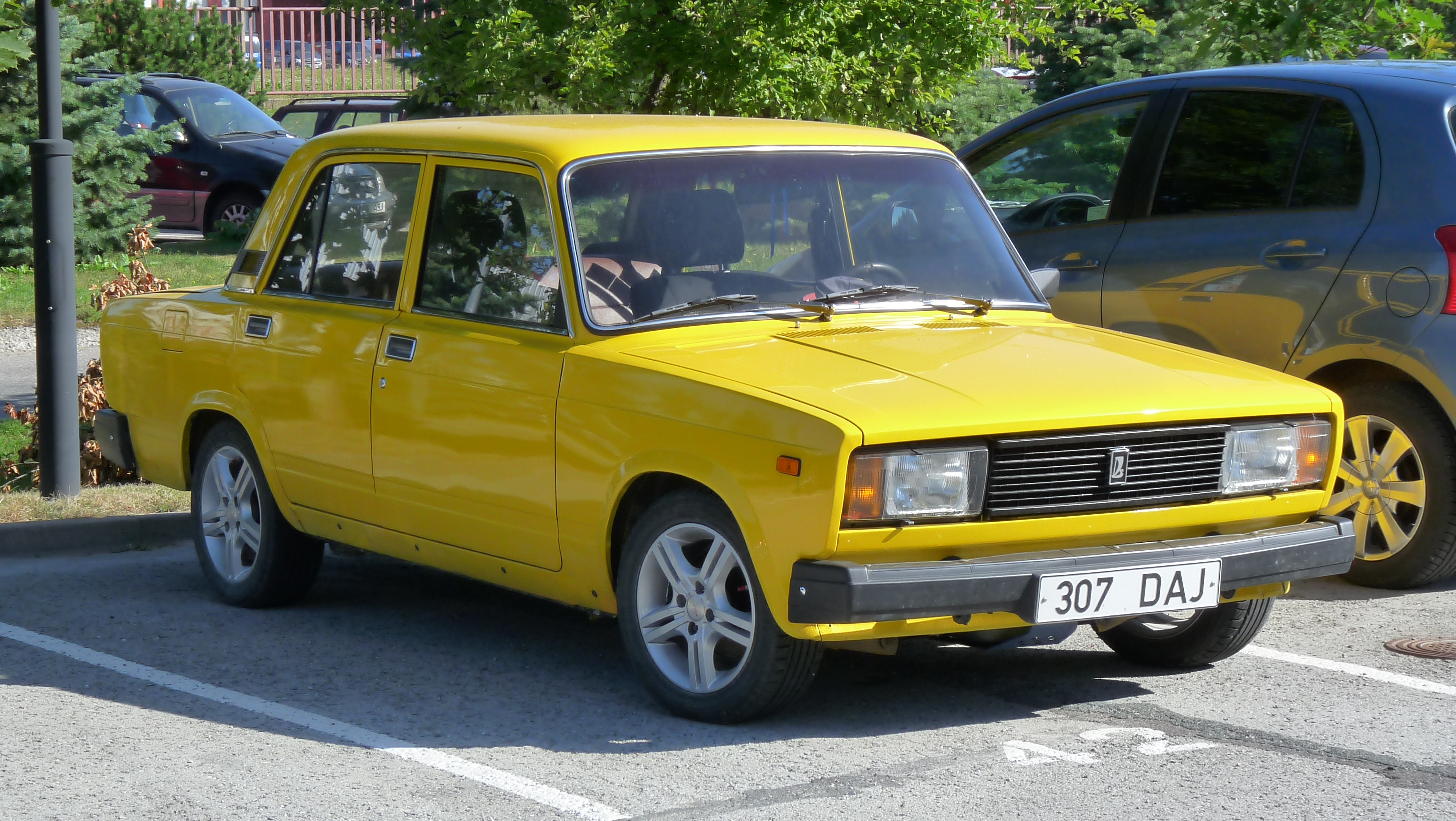 VAZ automobile in Tallinn, Estonia